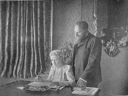 Annie Besant and C. W. Leadbeater, London, 1901